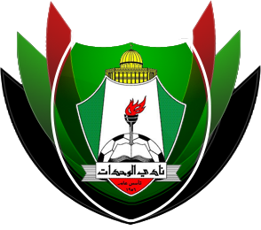 wehdat logo